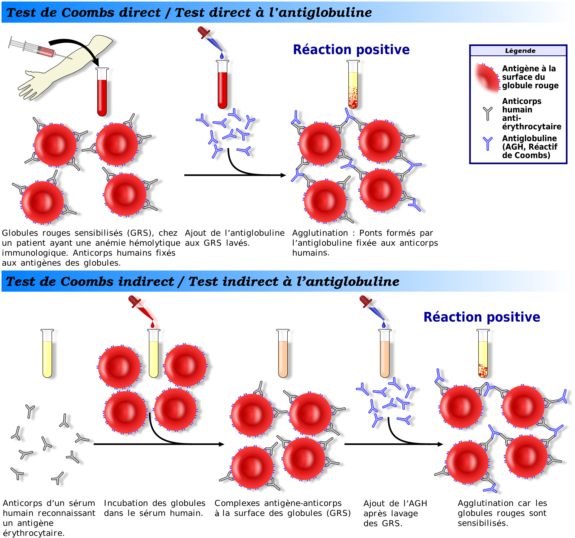 Description: schematic of the Coombs (or antiglobulin) test, showing what is performed and the micro- and macroscopic changes that occur. With a - direct or indirect - negative test result (not shown), agglutination will not occur and the tube will look exactly like it was in the previous step. Author: A. Rad Date: March 16, 2006 License: GFDL Created using Xara X¹ (no svg export). You can contact me on my Wikipedia user page for comments. User:Snowmanradio helped me a lot during the creation of this diagram by giving feedback. Misc. info: I already had drawn the direct Coombs test for a powerpoint presentation. Only had to draw the indirect test and put it all in a schematic that makes sense to everyone else. See also image:Coombs_test_schematic.png